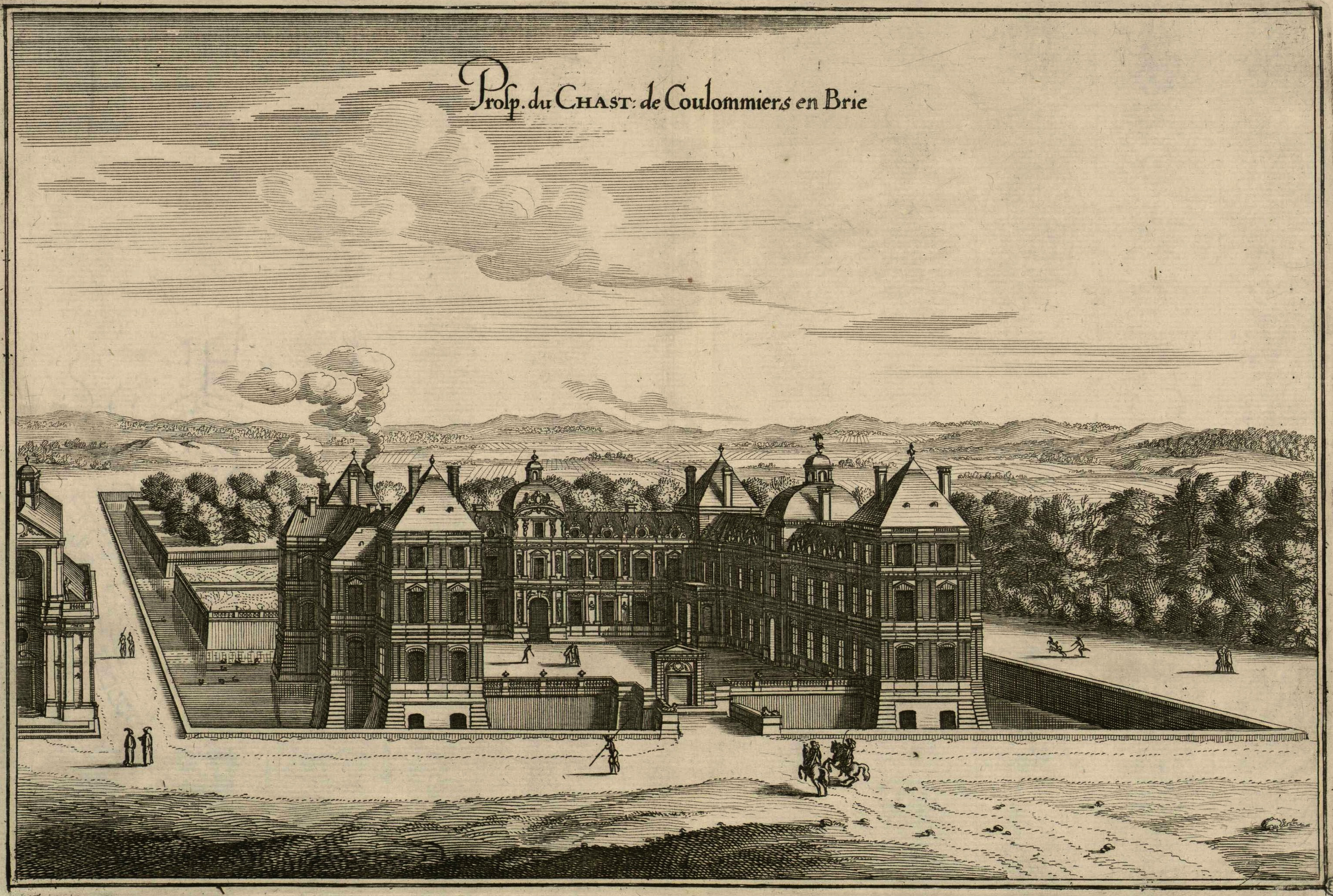 View of the Château du Coulommiers-en-Brie by an anonymous artist, intaglio print, 19.3 x 29 cm (to the plate mark)